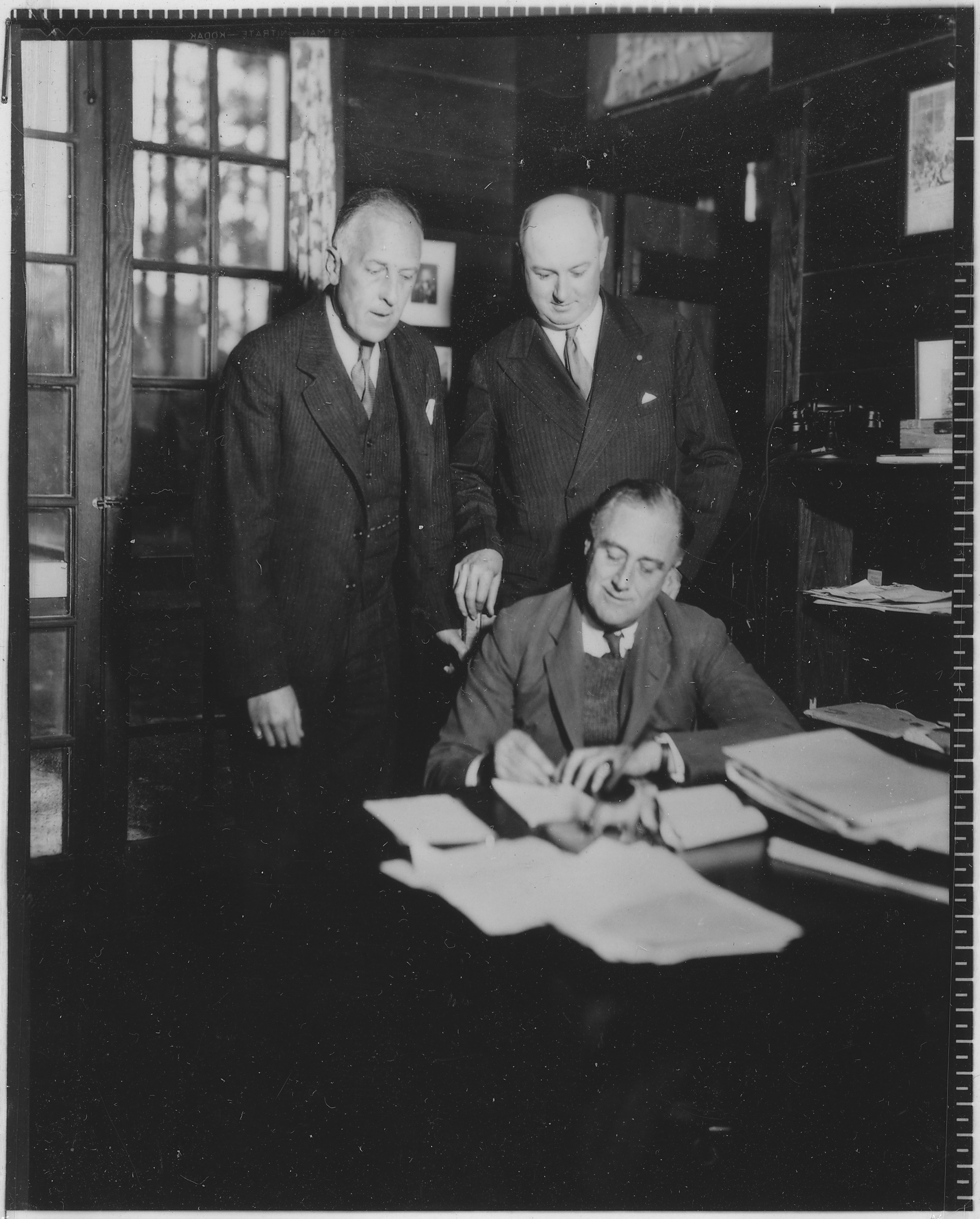 General notes: Charles R. Crane (left) and James Farley stand behind FDR who is signing a document.